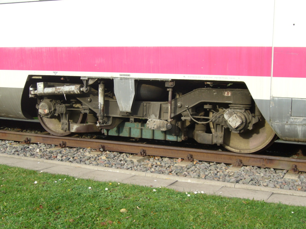 A bogie of the InterCityExperimental.